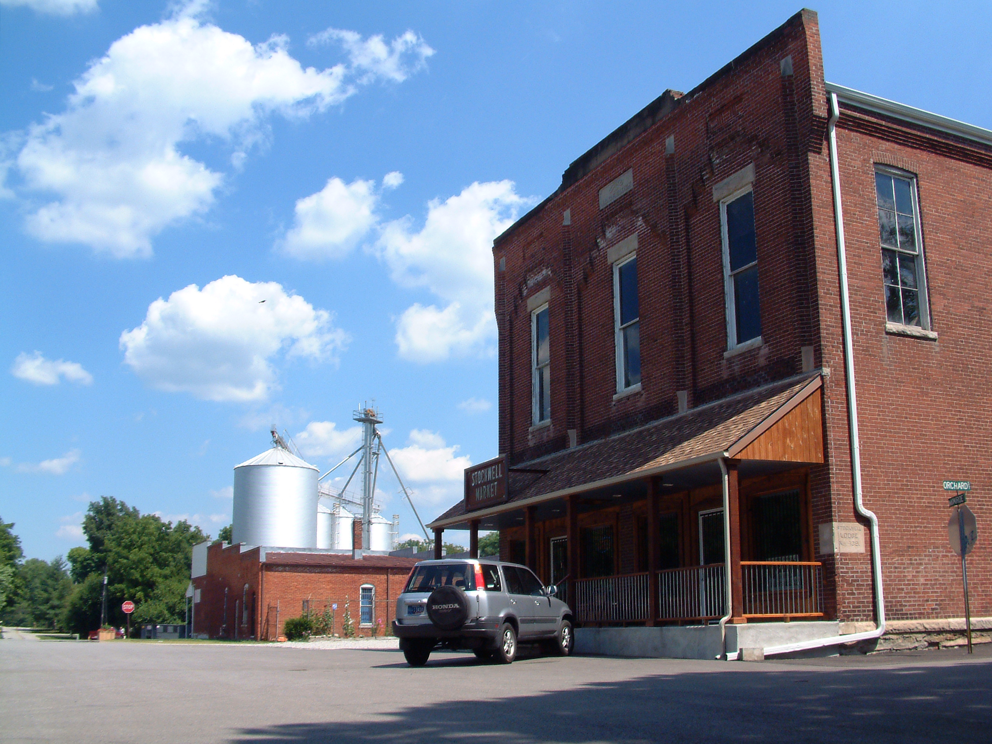 Stockwell Market in the town of Stockwell in Tippecanoe County, Indiana. This photo was taken near the corner of Monroe Street and Orchard Street and looks east-southeast.